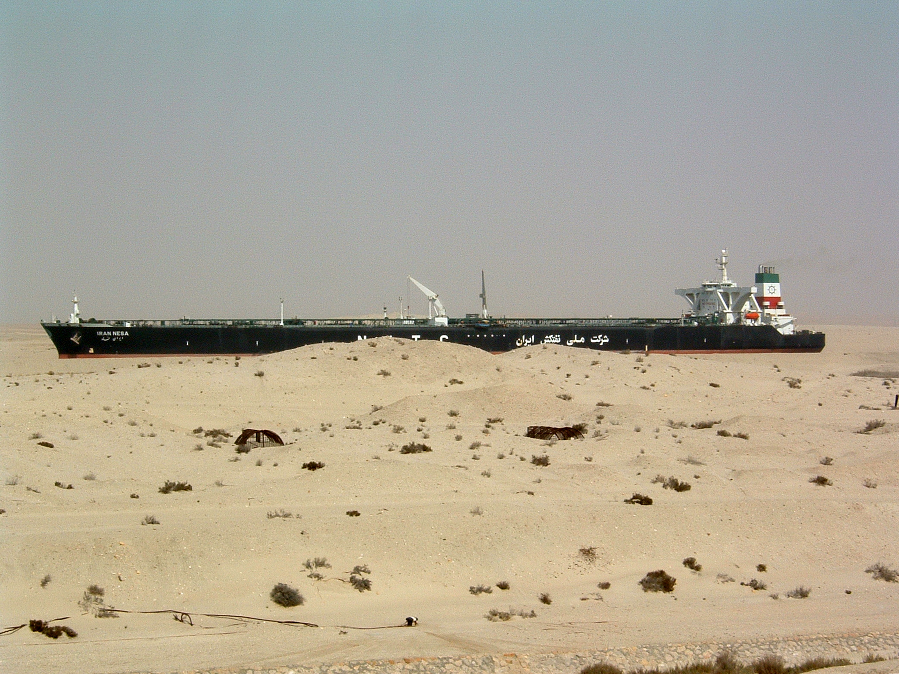 Sand-Driving - Sea Of Sand. Ship Of The Desert - Motor Tanker Iran Nessa Crude Oil (Iran Nesa) Crossing Suez Cannal